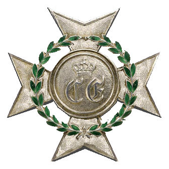 Carl Eduard-Kriegskreuz Warcross of Saxe-Coburg and Gotha 1916